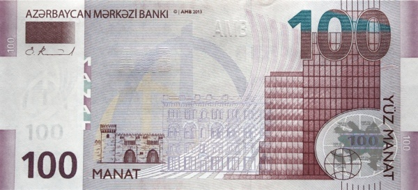 100 Azerbaijani manat in 2013 Obverse